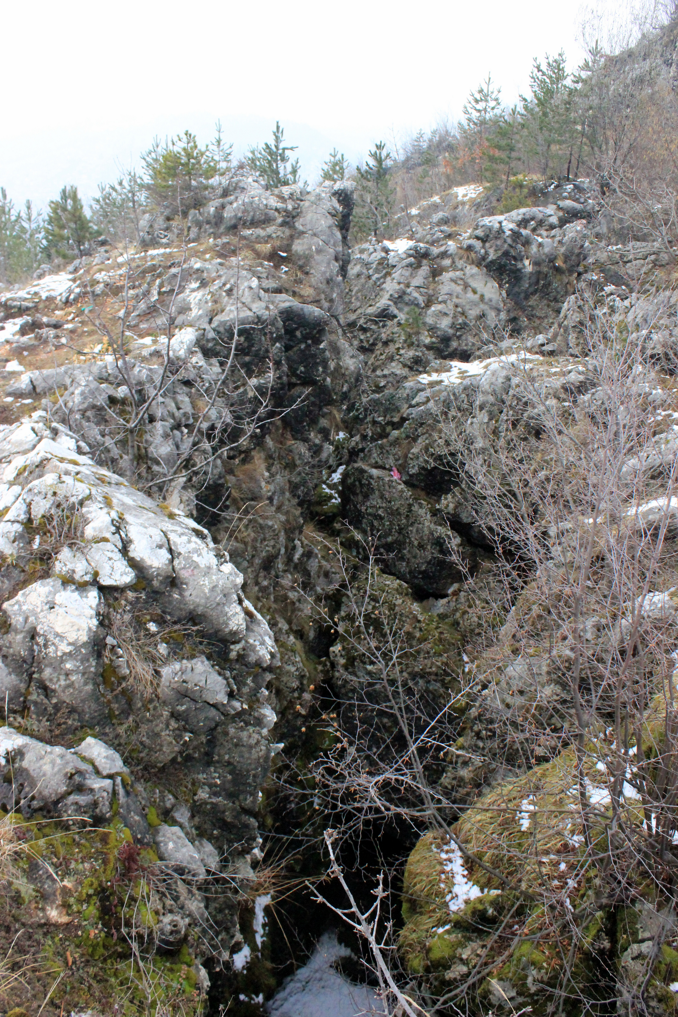 Kazani mountain ridge at Mt. Trebević, Sarajevo.